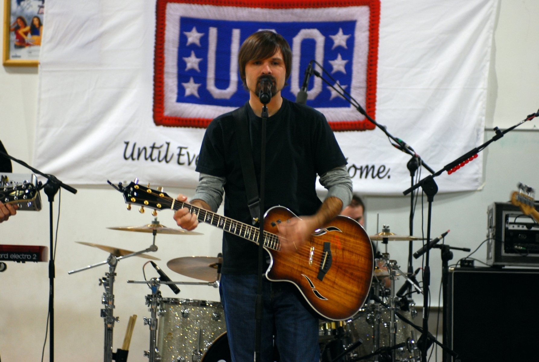 Mac Powell, lead singer of Third Day, warms up before the band’s performance Jan 19 at the Camp Victory gymnasium.